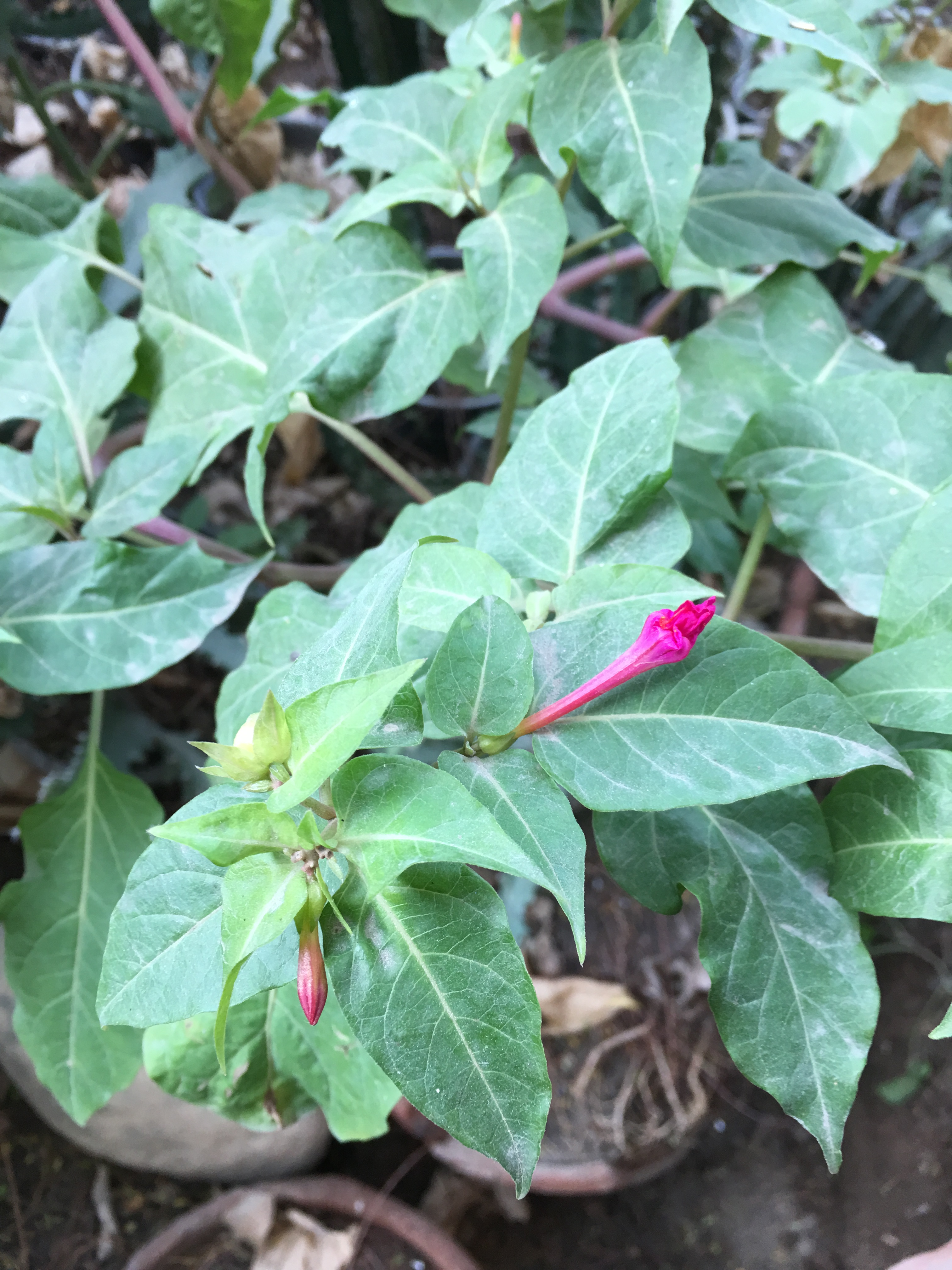 Mirabilis Jalapa at Cairo by Hatem Moushir